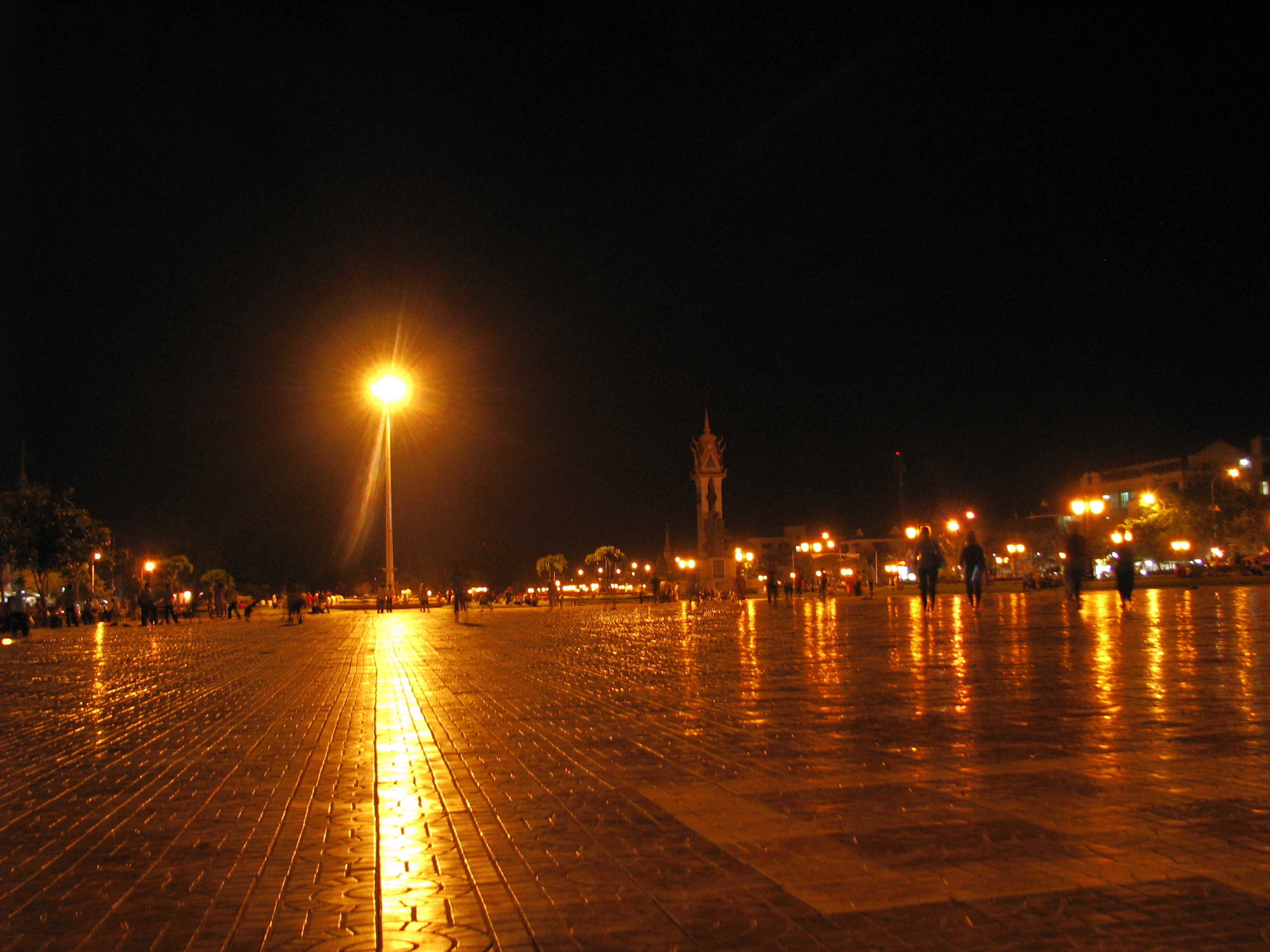 Loitering Phnom Penh's squares at night, using a bench as a tripod.